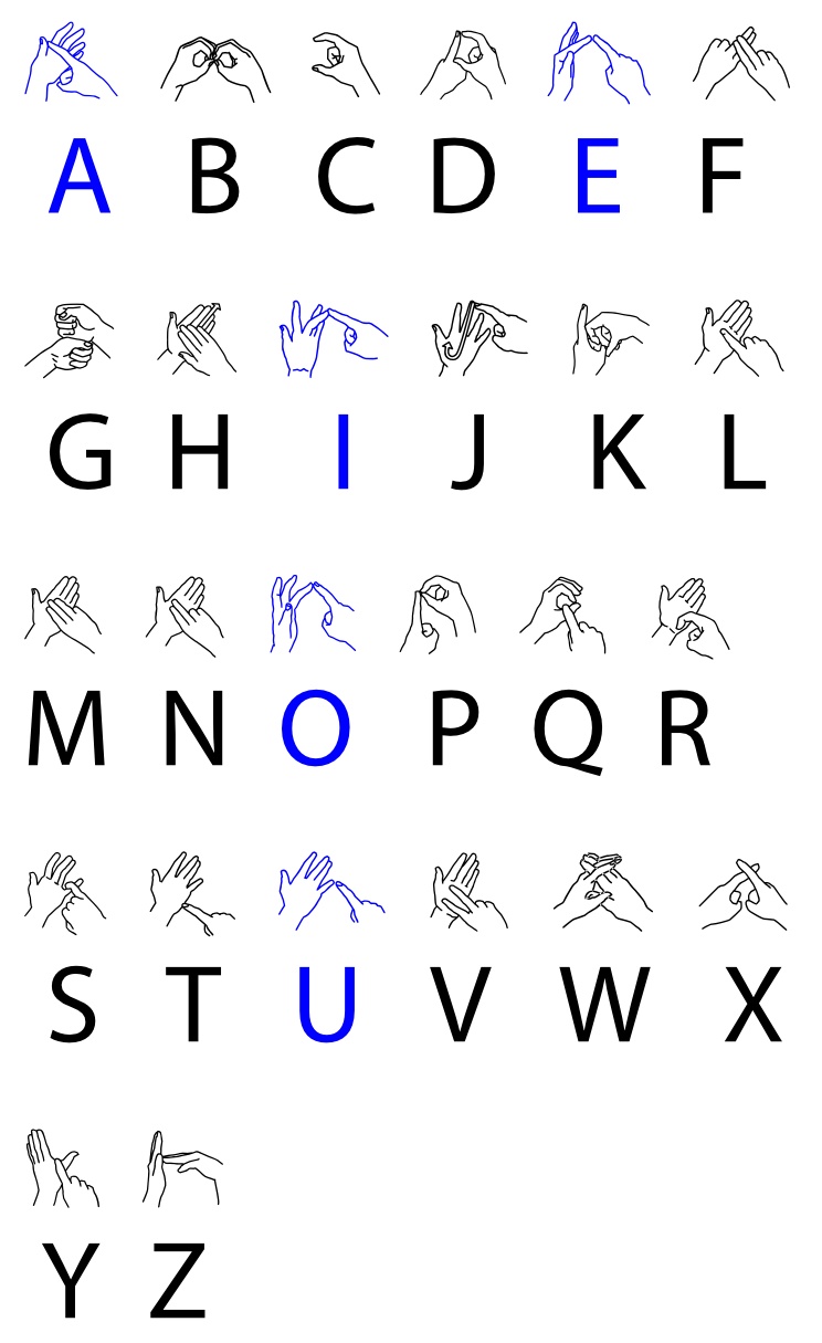 A chart of the fingerspelling alphabet of British Sign Language. (Created in Inkscape using the fonts BDA Fingerspelling and Myriad Pro.)